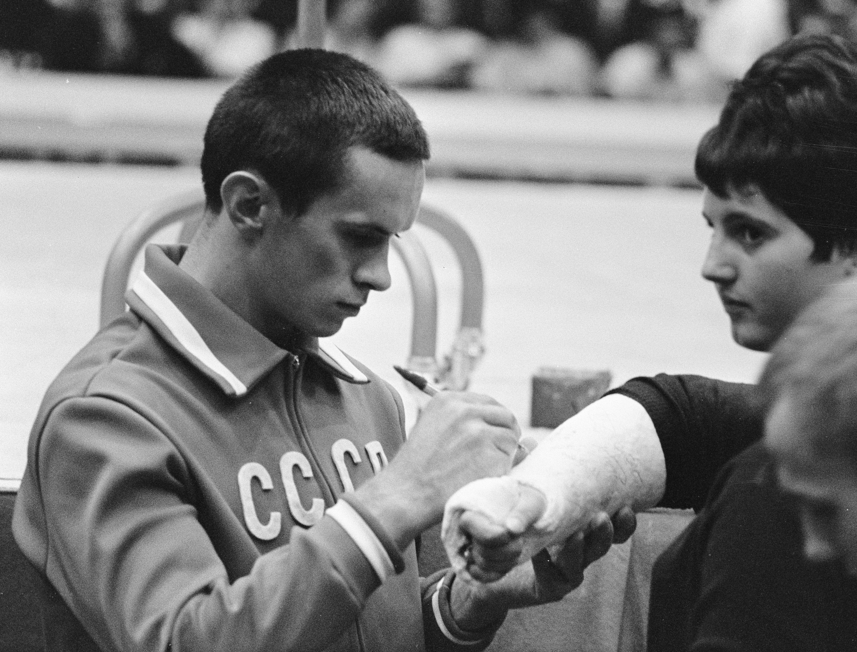 Mikhail Voronin gives an autograph at the 1966 World Championships